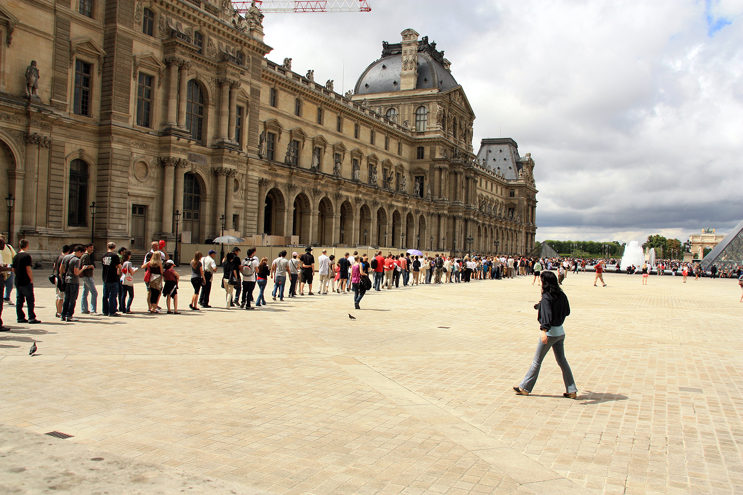 Queue of visitors to the Louvre